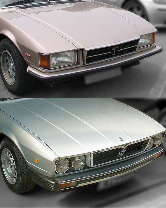 Comparison between the front ends of the De Tomaso Longchamp and the related Maserati Kyalami.